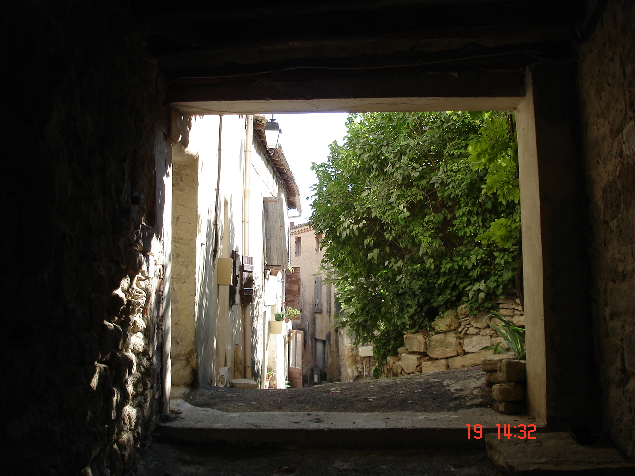 The village of Moirmoron